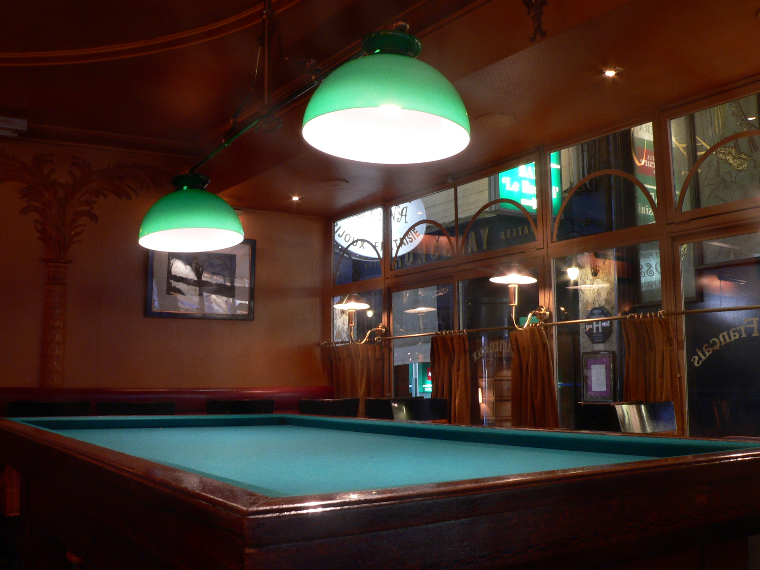 A carom billiard table in Café Zéphyr, Paris, France